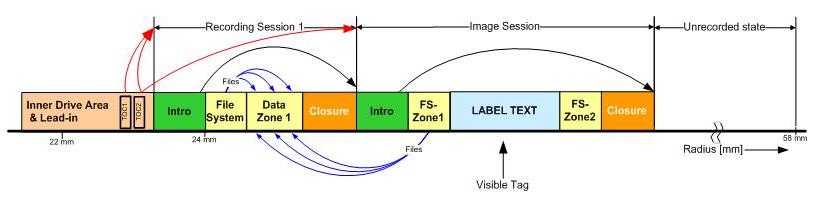 labeltag: how is the label located in a session for DVDR